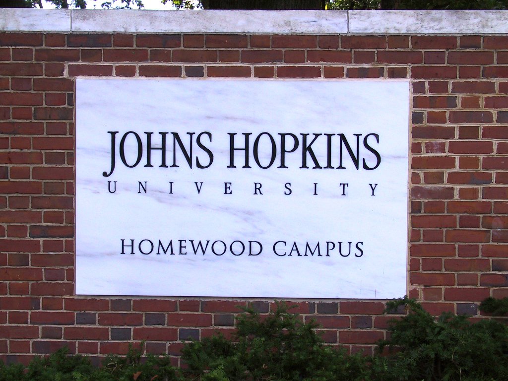 Sign in front of the Homewood campus of Johns Hopkins University.